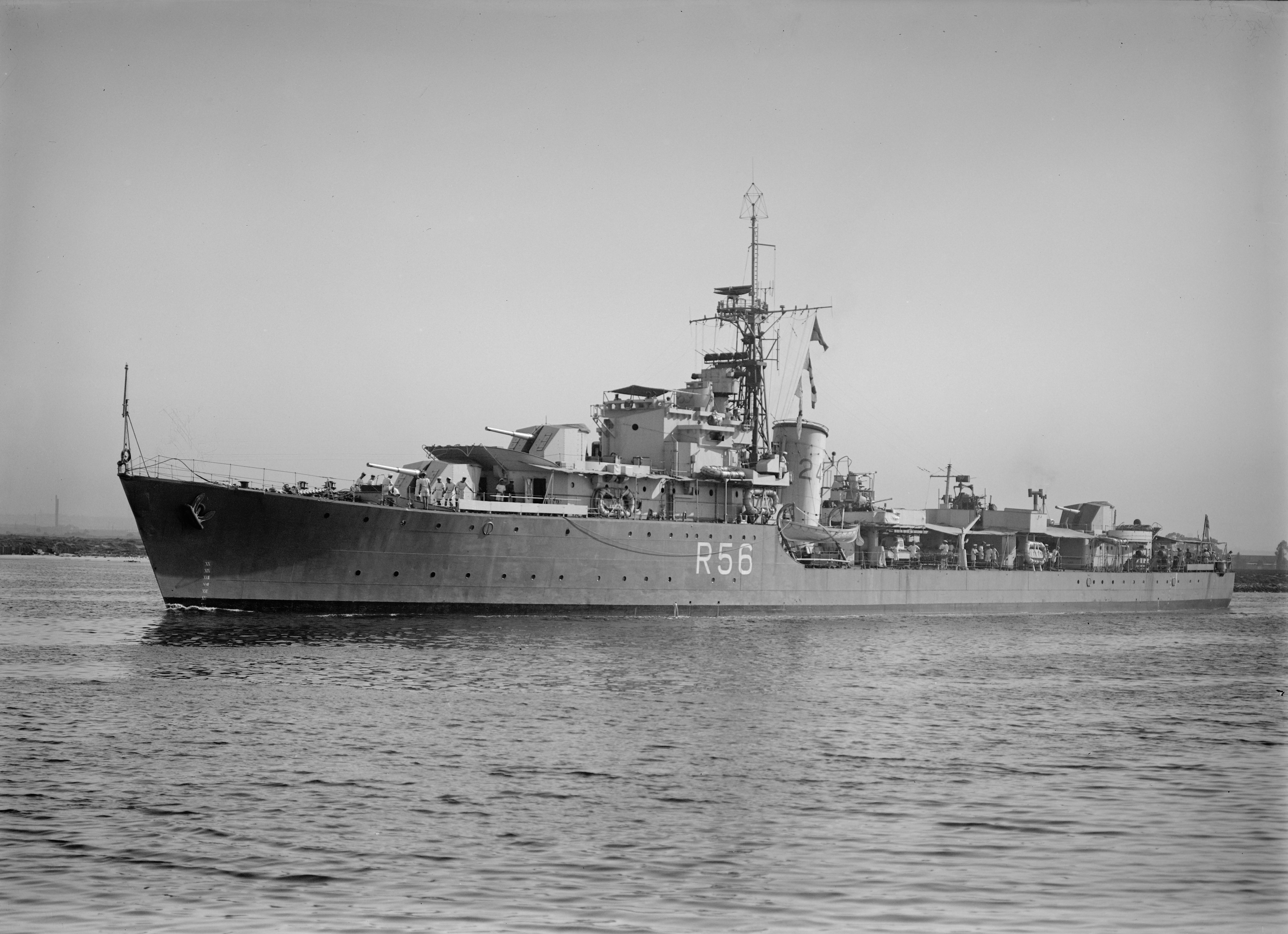 HMS Tuscan.